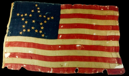 The 10th Virginia Infantry Regiment flag carried into the first battle of Manassas, July 20-21, 1861, Manassas National Battlefield Park, MANA 979